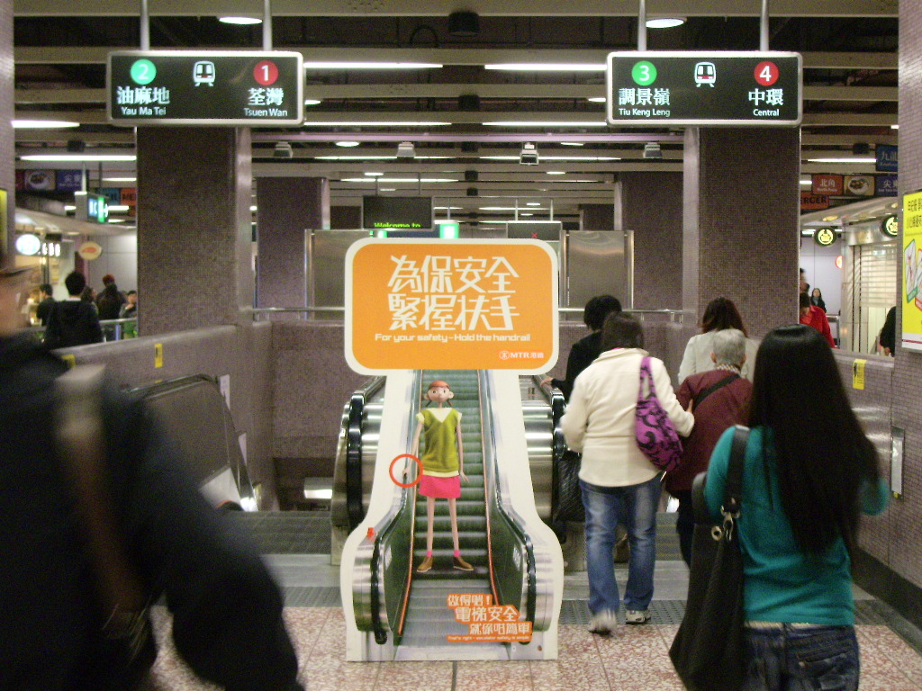 Escalators from MTR Prince Edward station concourse to platforms